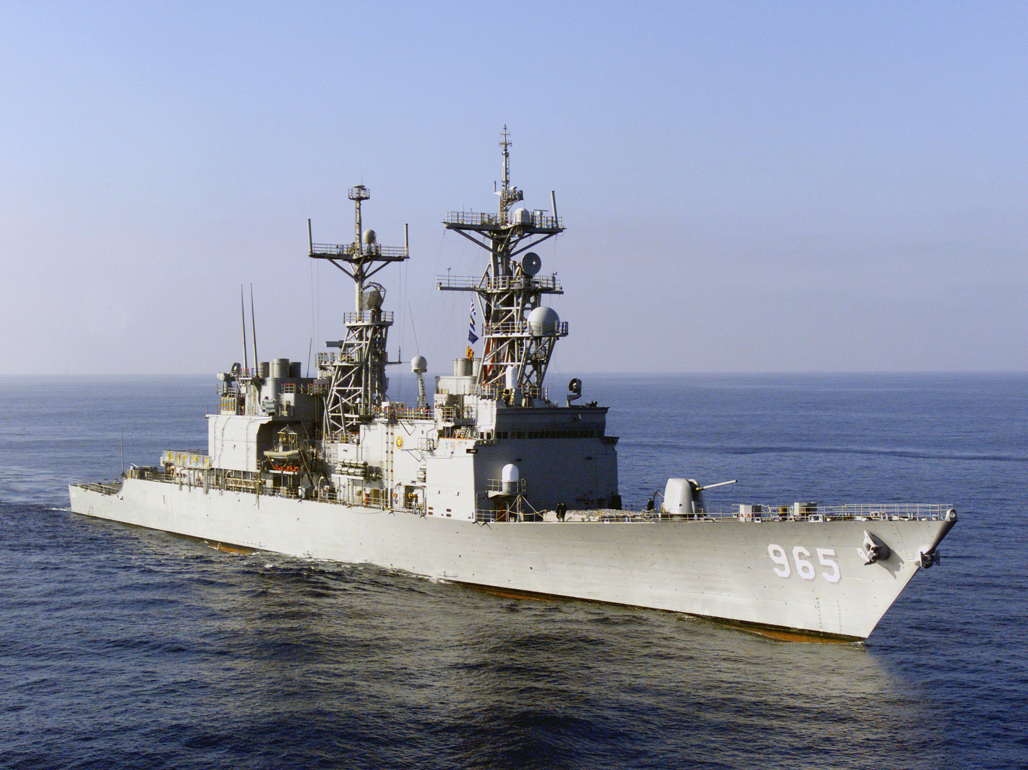 Starboard bow view of the US Navy (USN) SPRUANCE CLASS: Destroyer, USS KINKAID (DD 965) underway in the Pacific Ocean during work ups for a scheduled deployment.